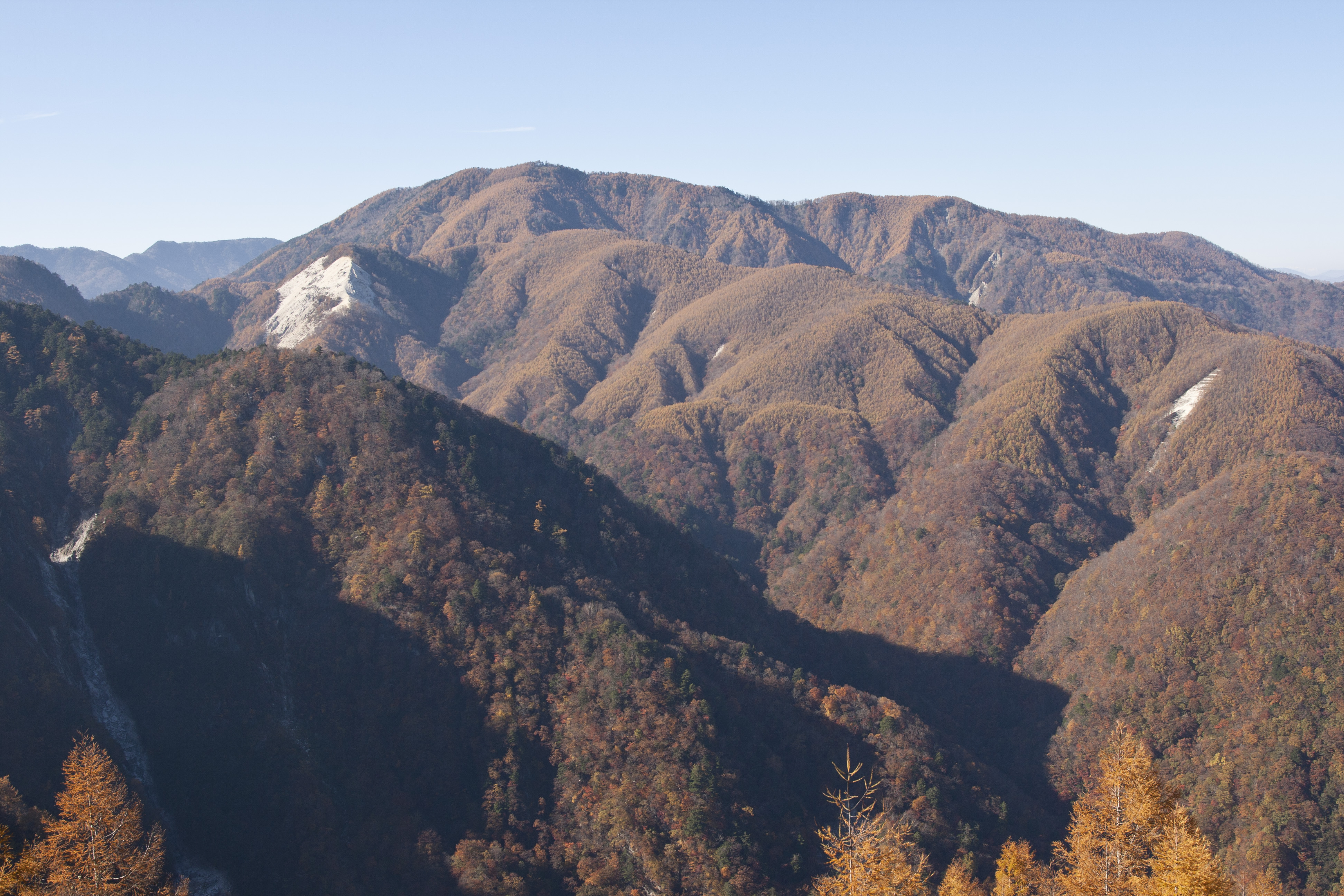 Mt.Amagoidake as seen from Mt.Hinata, Yamanashi Pref., Japan